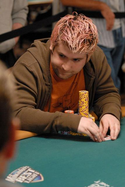 gavin griffin in 2007 World Series of Poker - Rio Las Vegas.